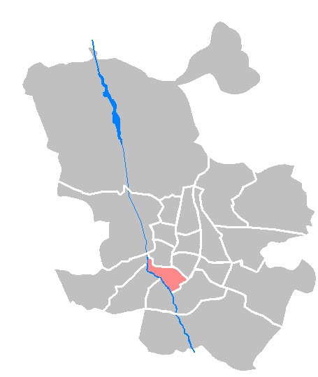 Locator maps of districts in Madrid: Maps - ES - Madrid - Arganzuela.PNG